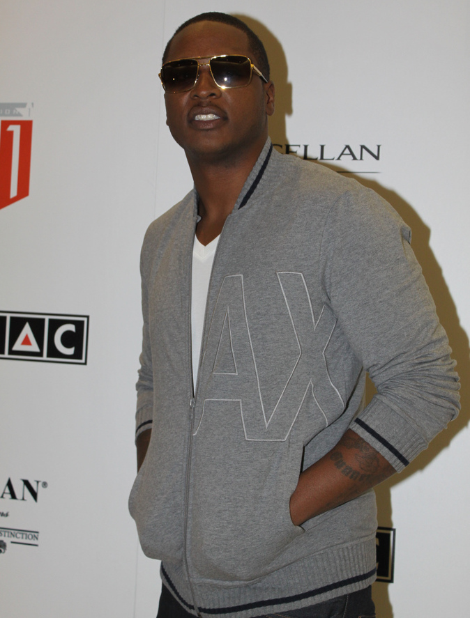 Young Chris at the Division 1 Launch Party 2010.